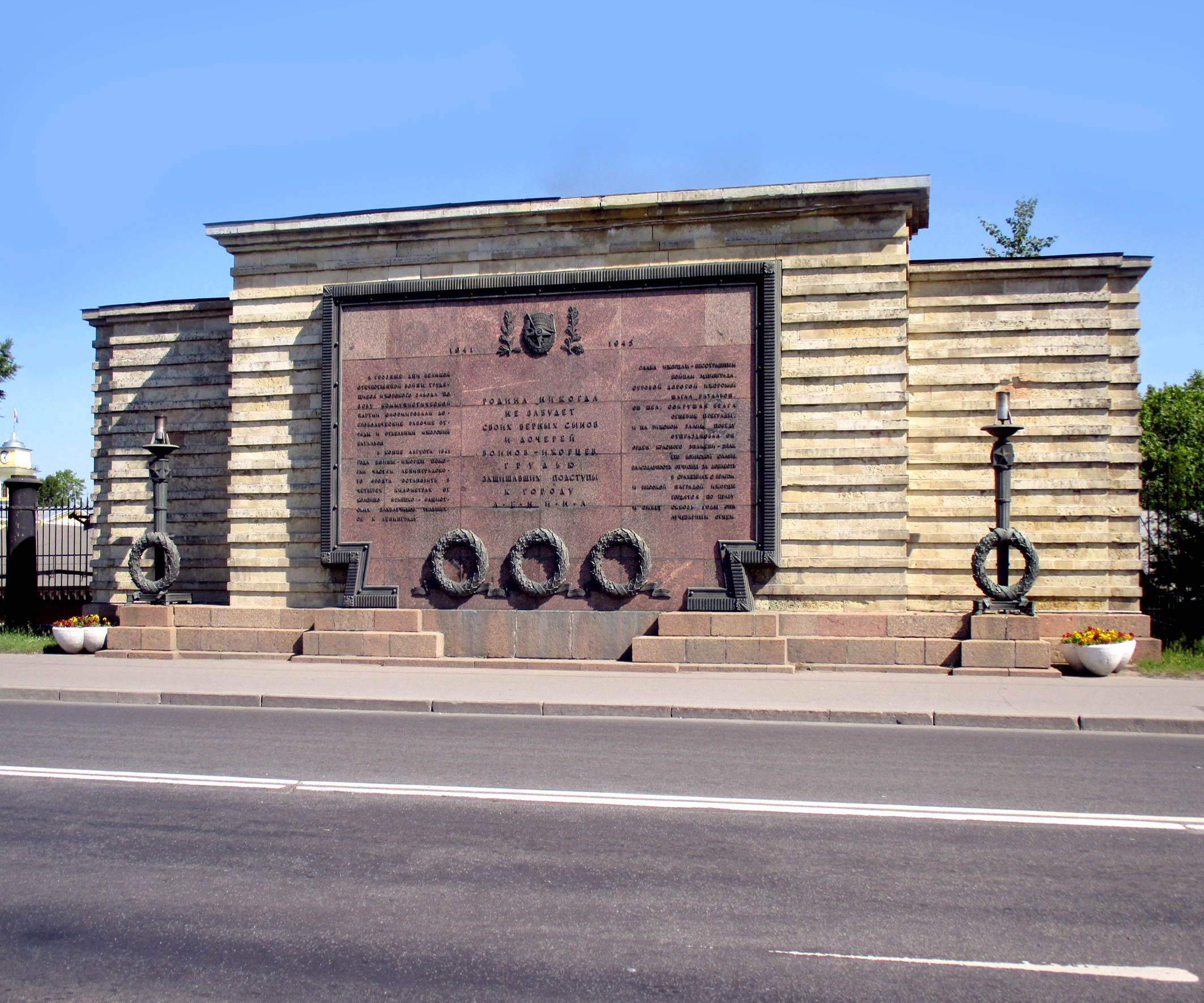 Memorial Izhorskij Battalion. Kolpino.